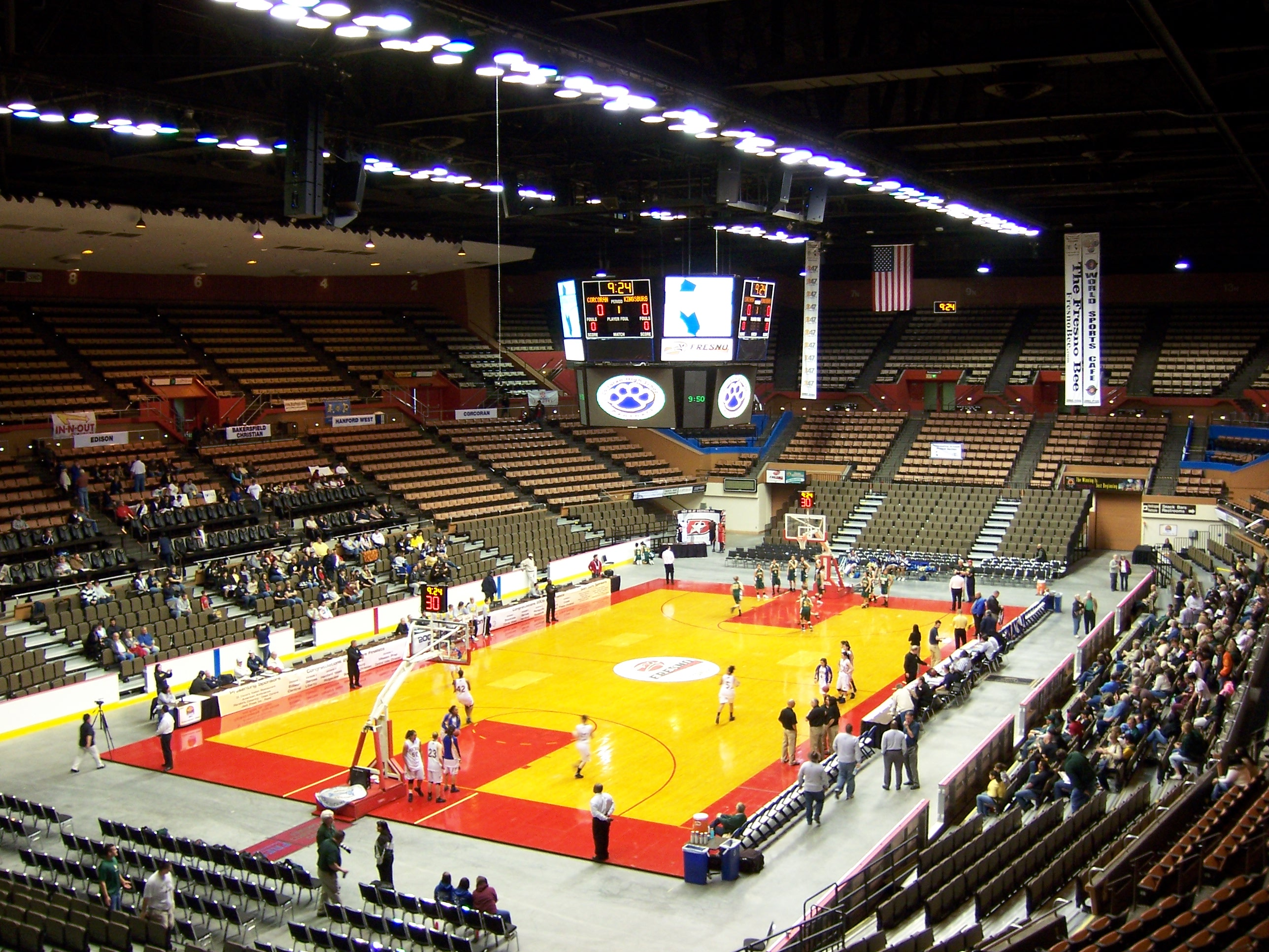 Interior of the Selland Arena in Fresno, California. Photo features the new scoreboard and new premium seats installed in 2008.